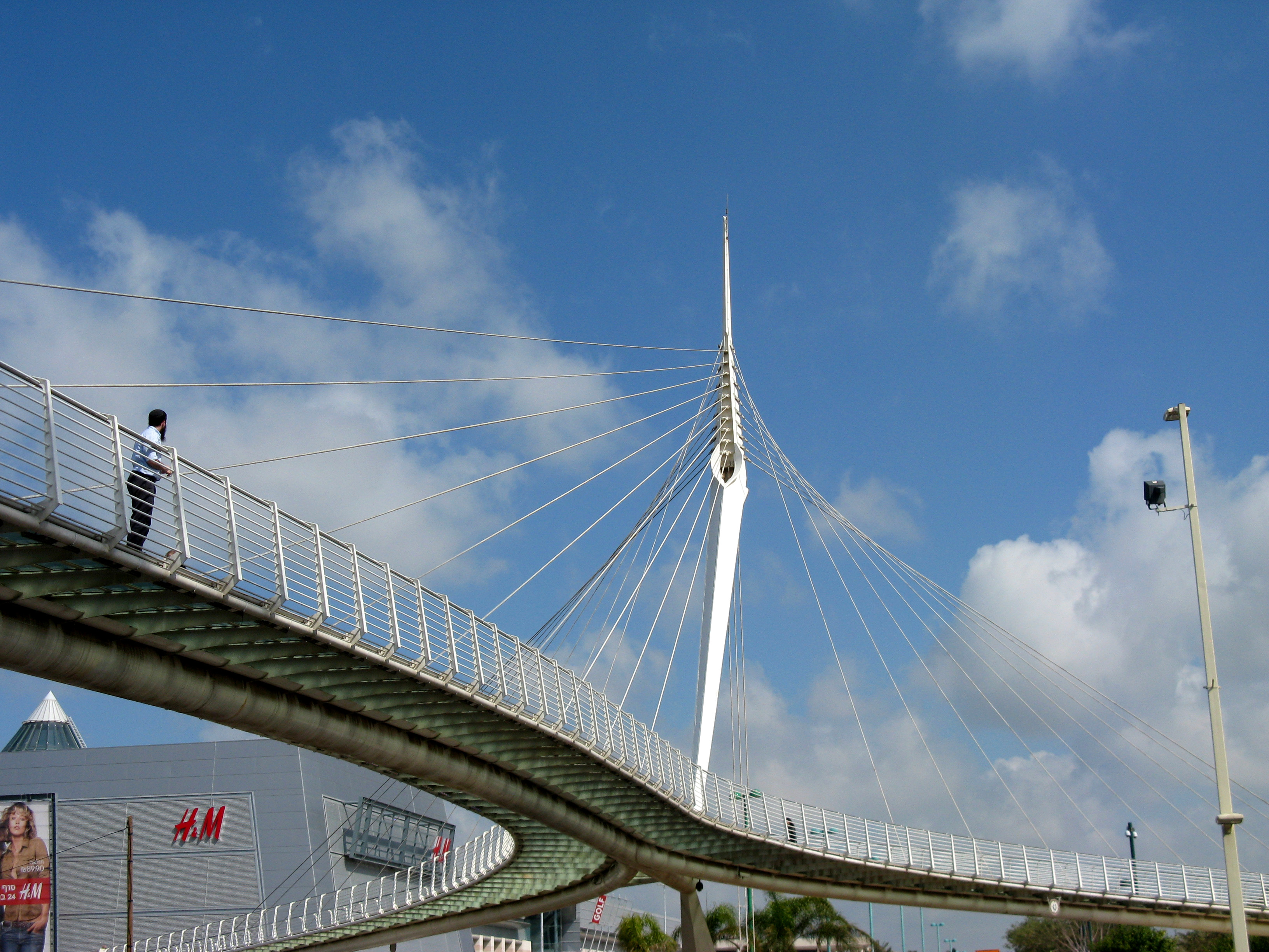 Caltrava bridge in Petah Tikva